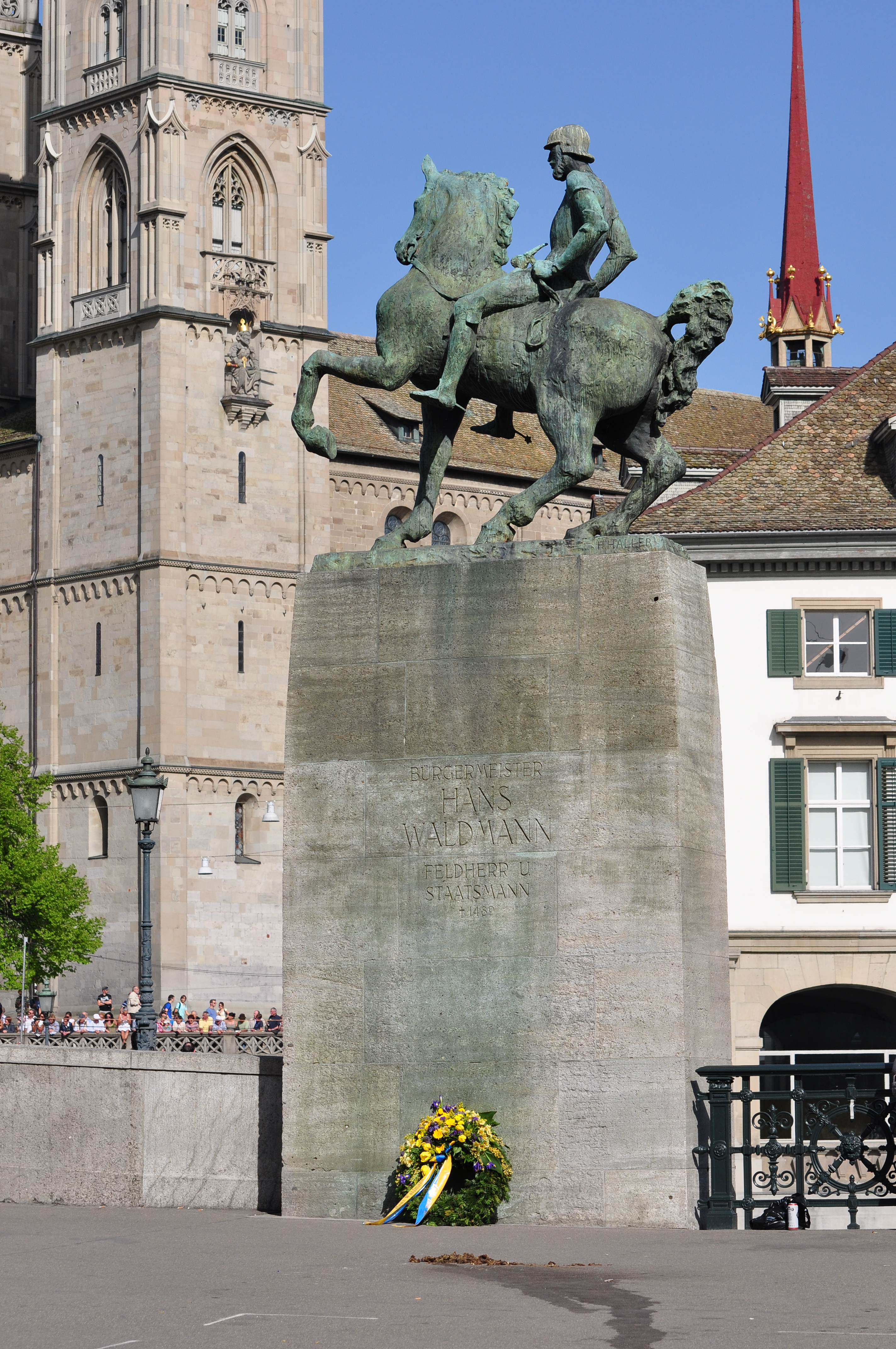 Equestrian statue of Hans Waldmann (* 1435; † 1489) at Münsterhof in Zürich (Switzerland) : Wreath-laying ceremony by the members of the Kämbel guild at Sechseläuten.